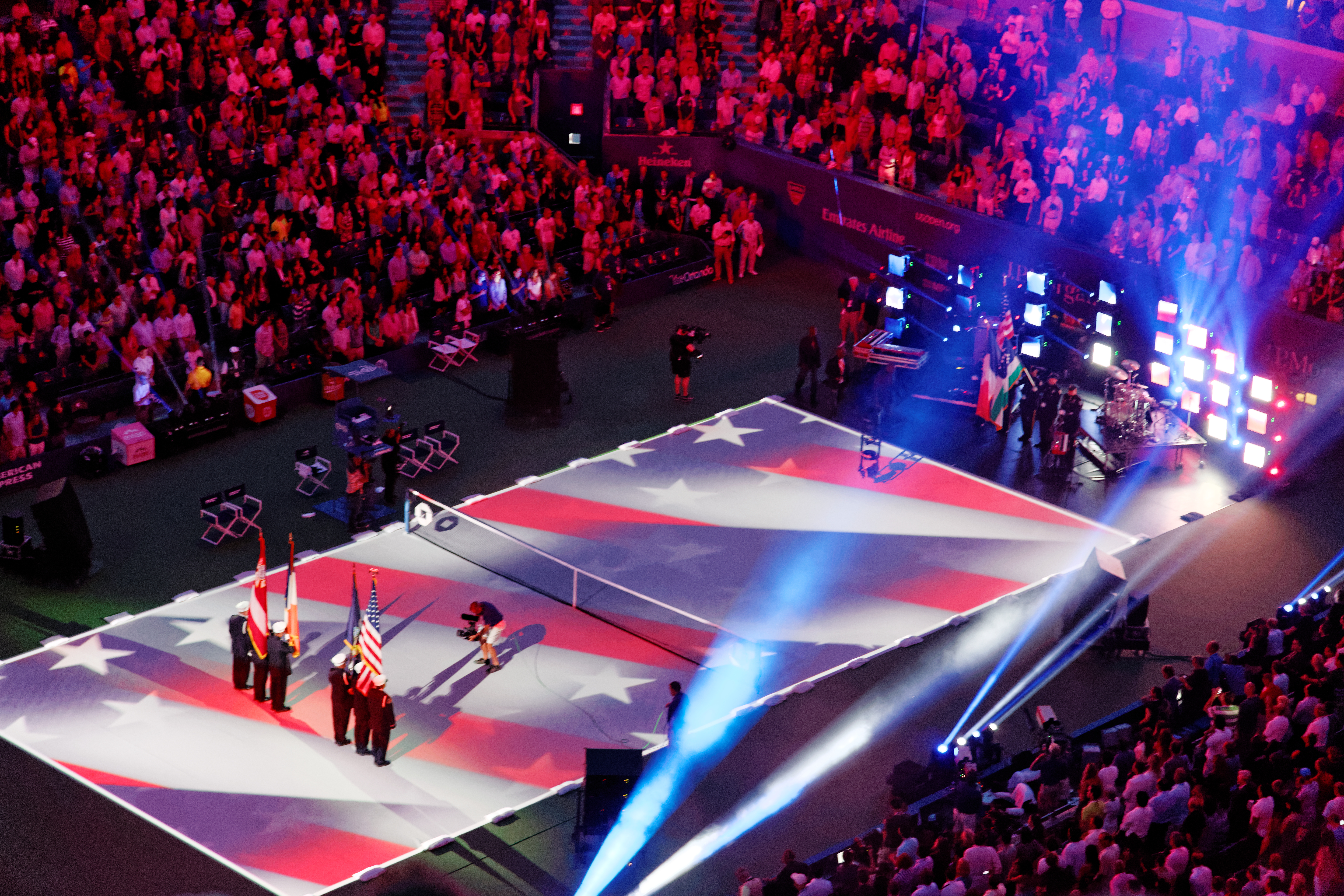 The 2014 US Open is a tennis tournament played on the outdoor hard courts. It is the 134th edition of the US Open, the fourth and final Grand Slam event of the year. It is currently taking place at the USTA Billie Jean King National Tennis Center. Roger Federer Ana Ivanovic Bill Diblasio David Dinkins Martina Navratilova